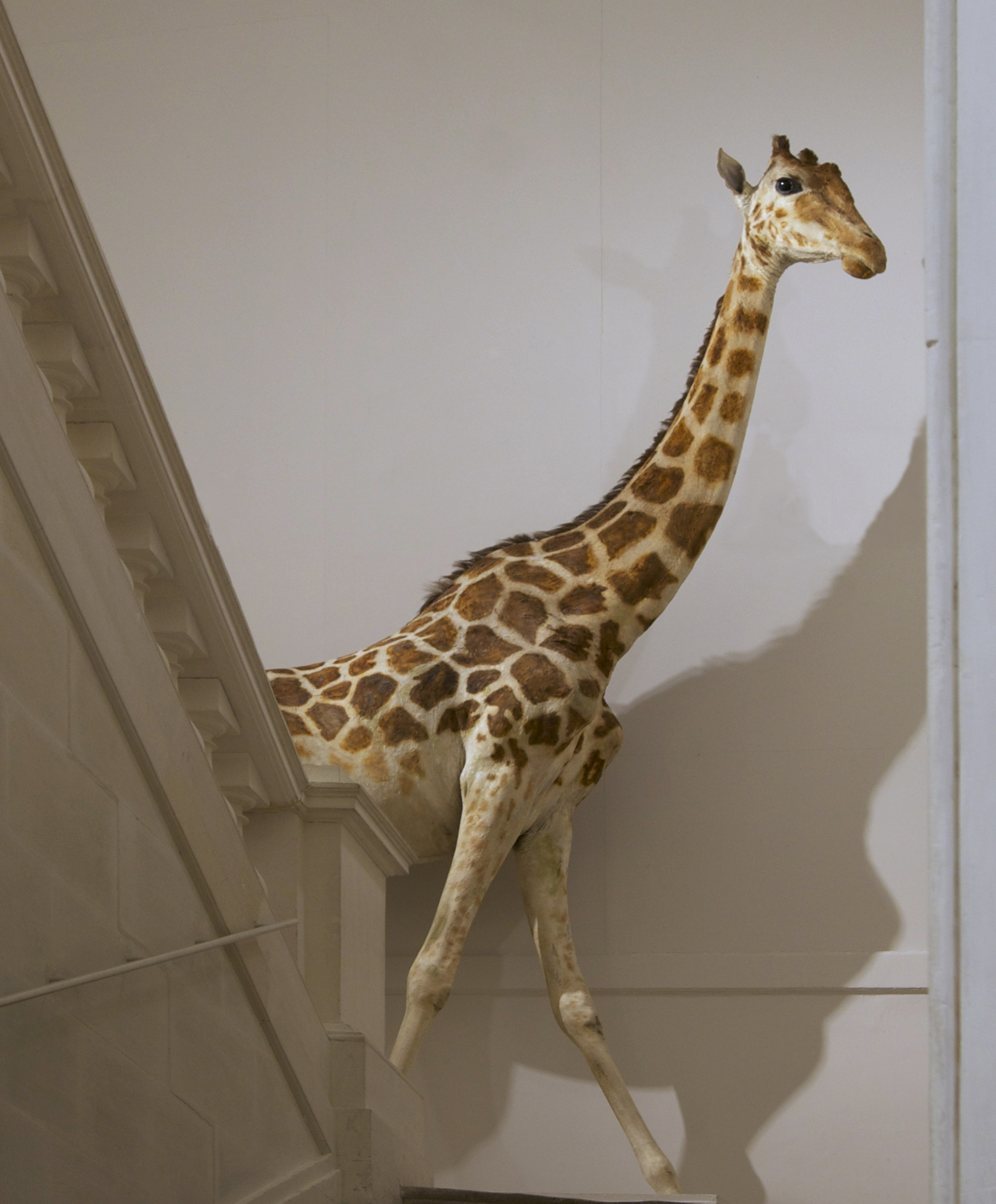 Zarafa. Stuffed giraffe, the first in France, given by Sultan of Egypt to Charles X of France. On display at museum of Natural History of La Rochelle, France.